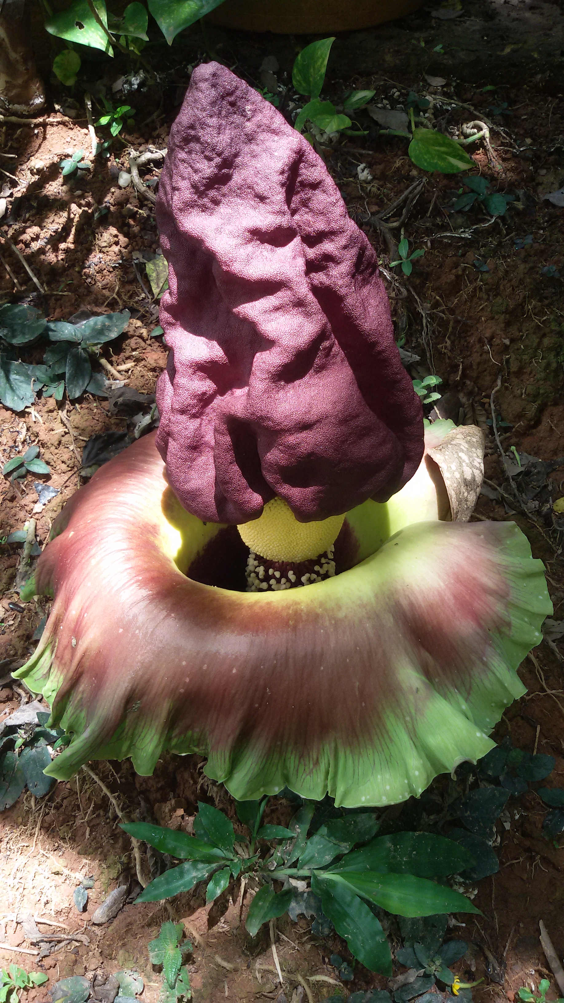 Stink flower. Pollinated by flies, which are attracted to the rotting meat smell it exudes